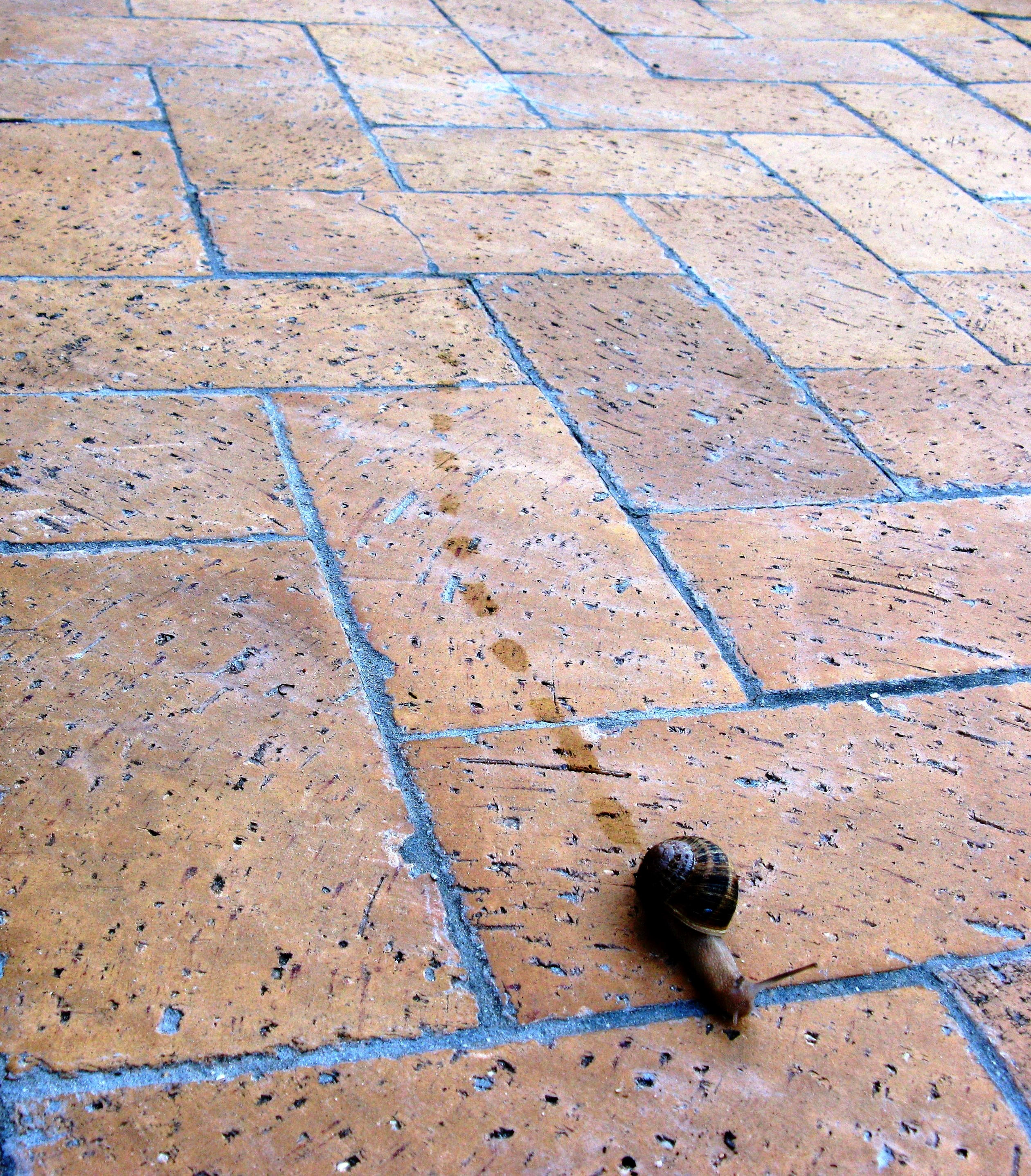 Cornu aspersum (or Helix aspersa as it used to be) leaves a mucus-conserving trail when moving over an absorbent surface such as dry brick. This is demonstrated by the visibly broken trail of mucus.